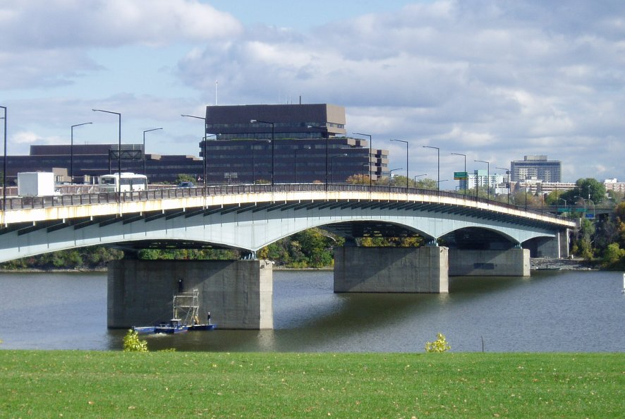 The Macdonald-Cartier Bridge in Ottawa, taken by SimonP